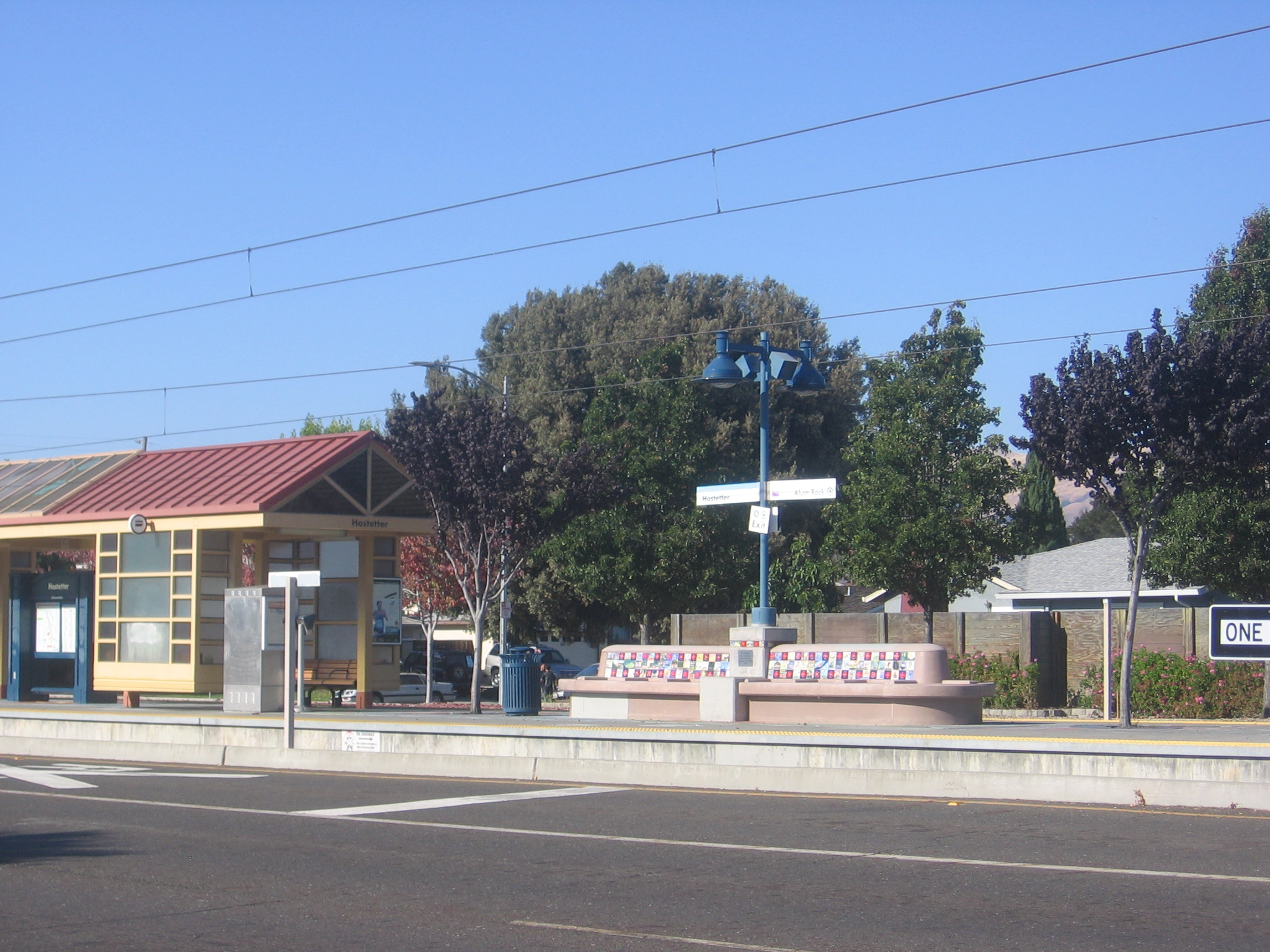 The Hostetter (VTA) light rail station in San José, California, USA.